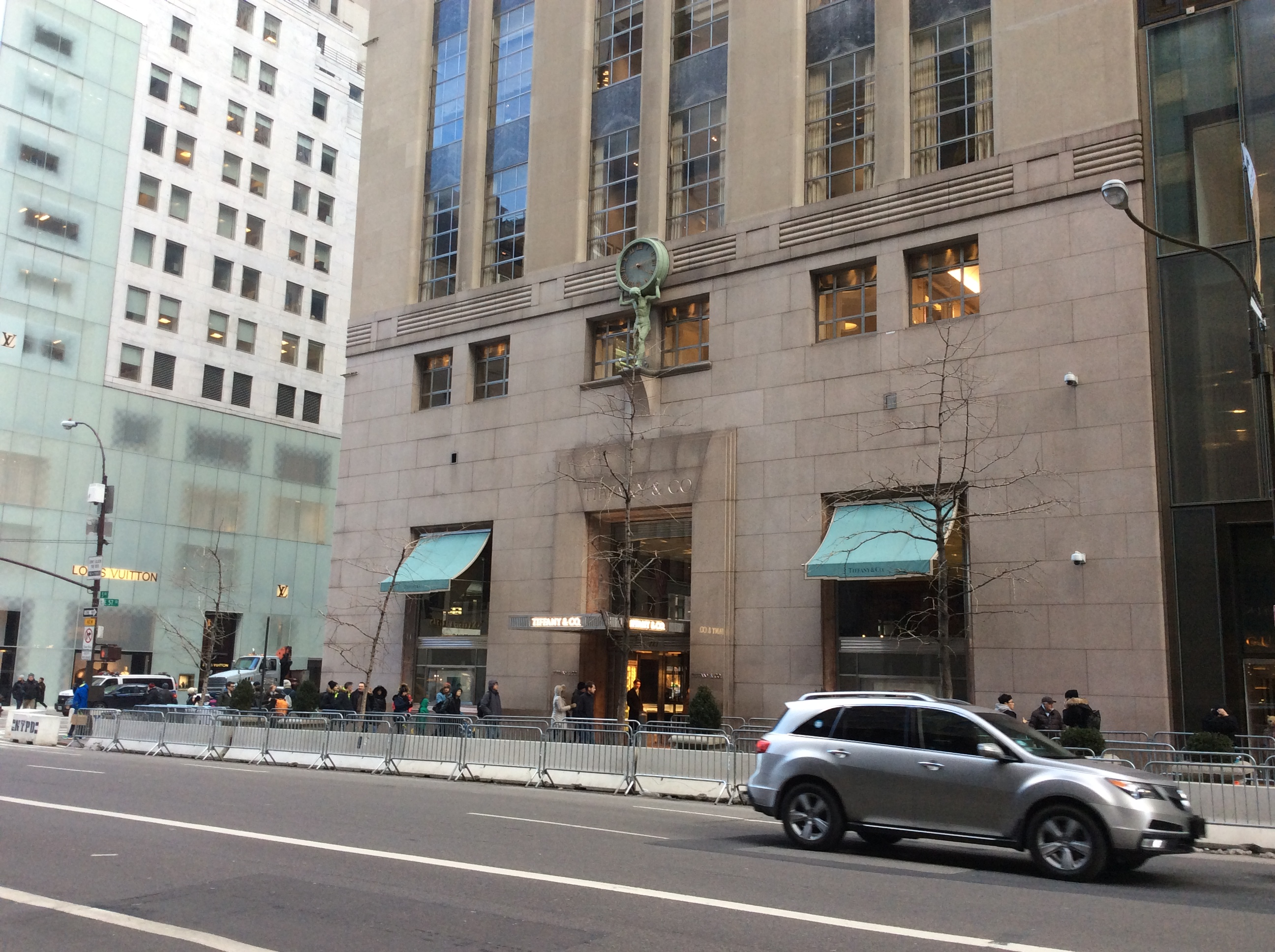 5 Av Tiffany & Co in Manhattan in February 2017